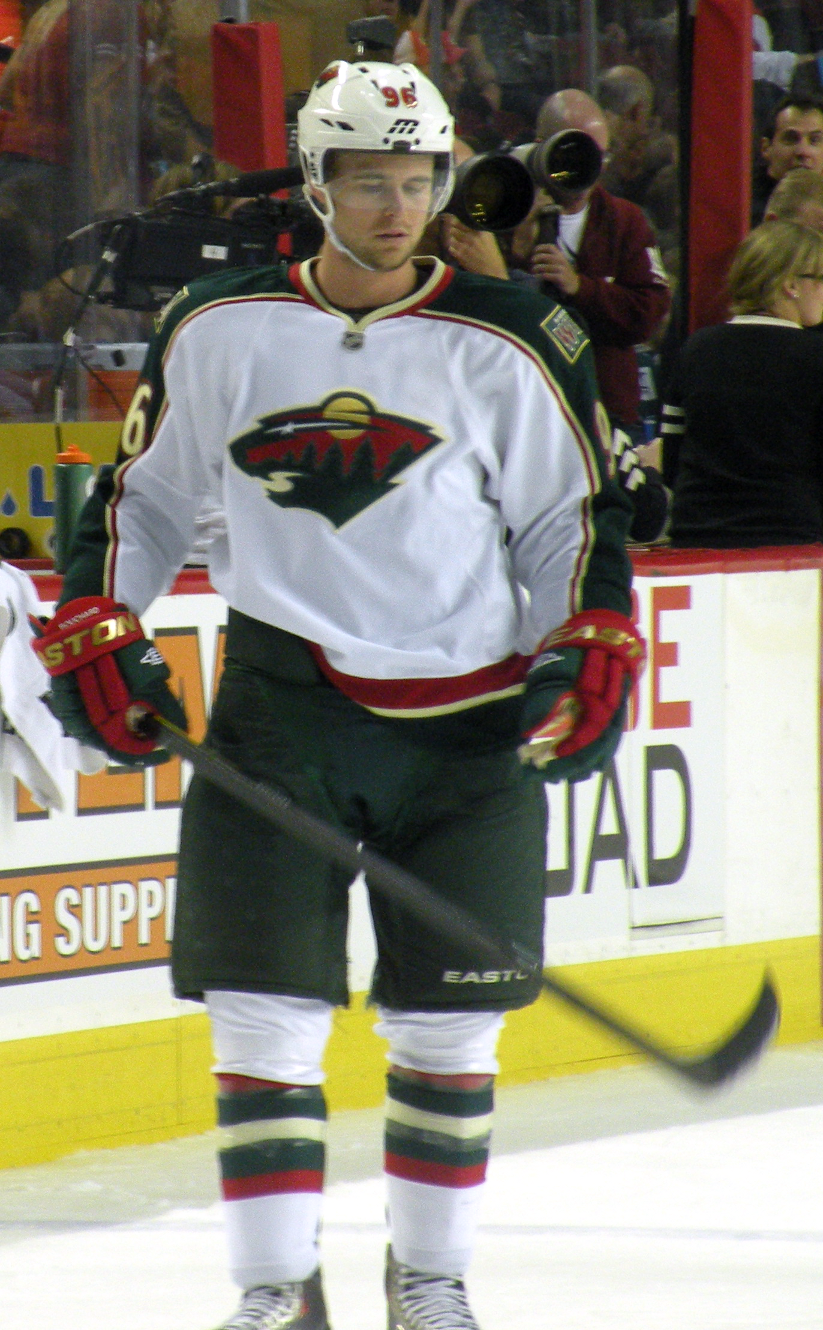 Minnesota Wild defenceman Jared Spurgeon prior to a National Hockey League game against the Calgary Flames, in Calgary.